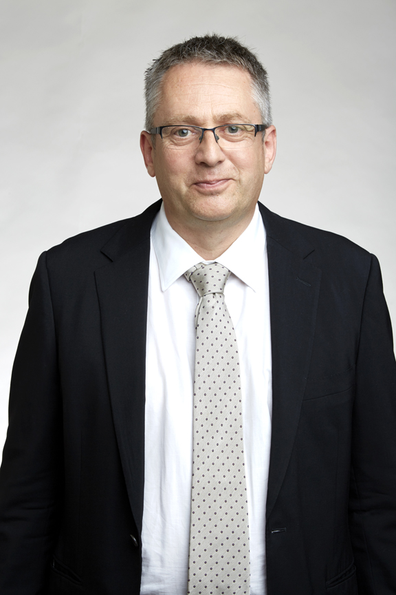 Neil Brockdorff is a Wellcome Trust Principal Research Fellow and professor in the department of biochemistry at the University of Oxford Attribution: The Royal Society